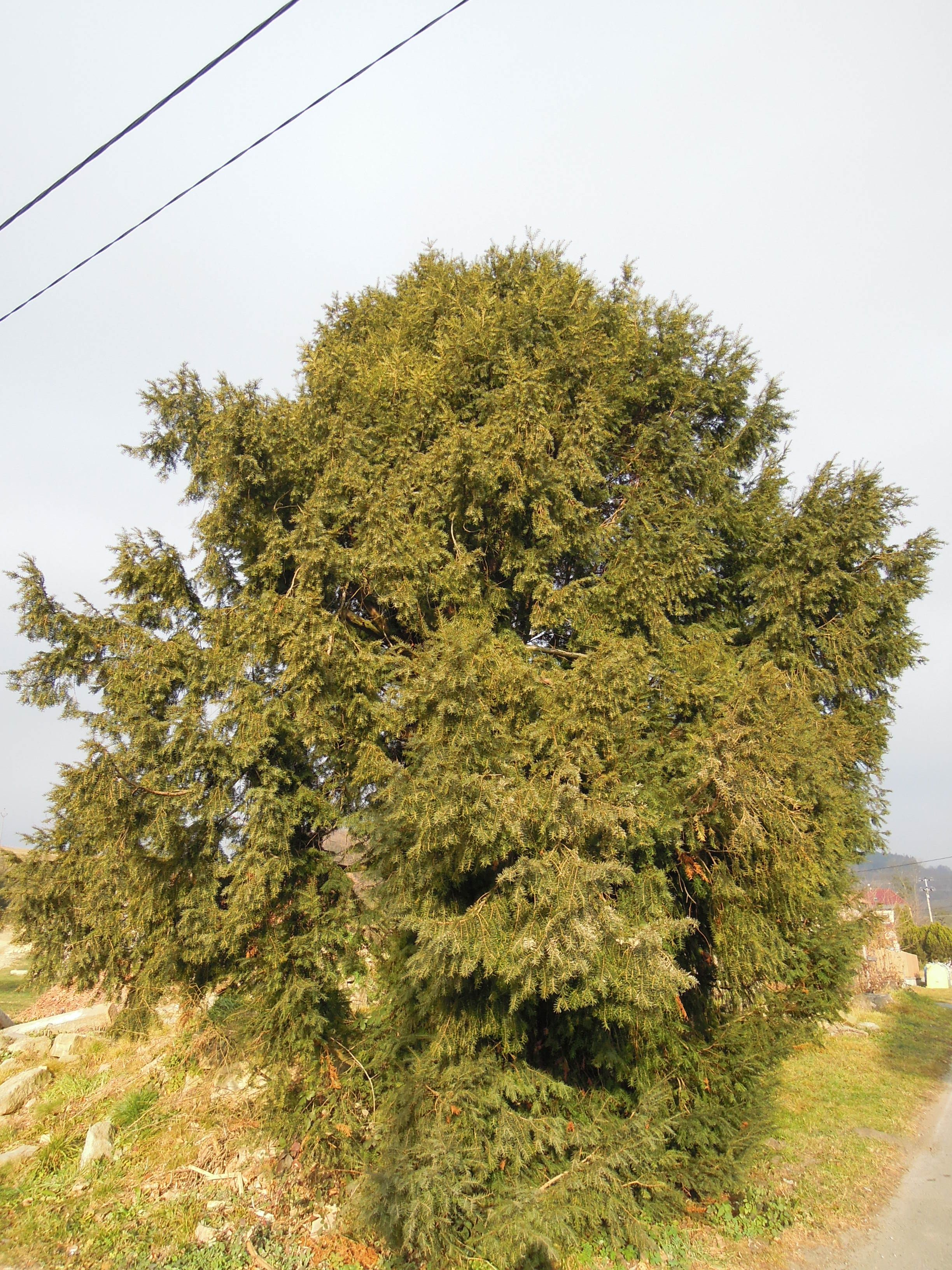 Koláčkův tis (Taxus baccata), famous tree in Zubří, Vsetín District, Zlín Region, Czech Republic